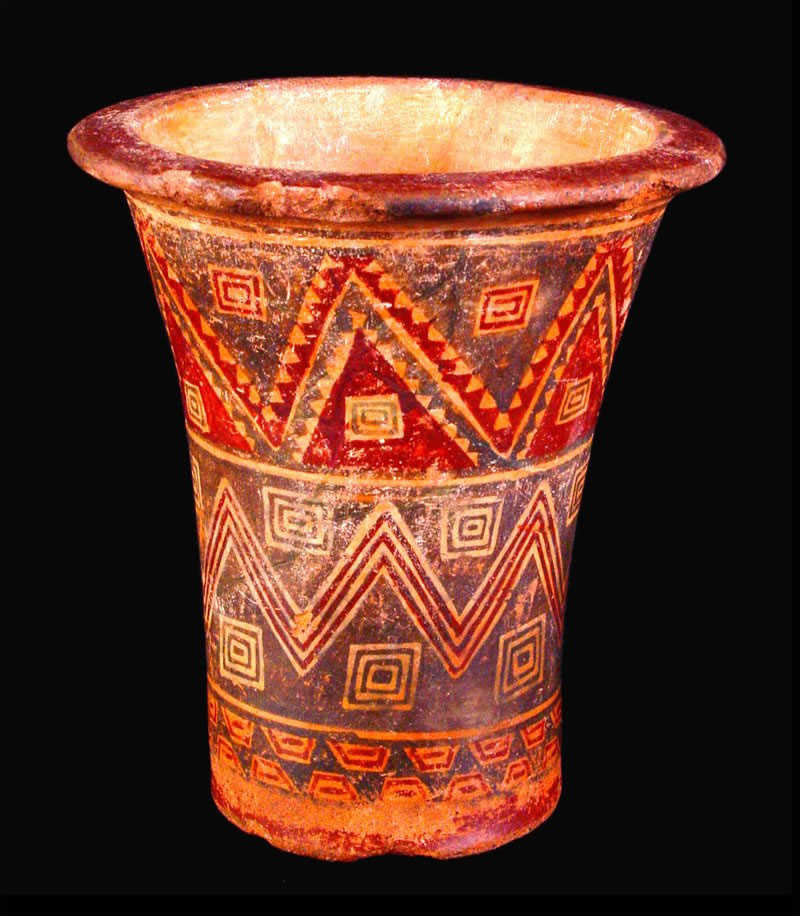 Kero cup, incan ceremonial vessel, beaker-shaped, 16th century